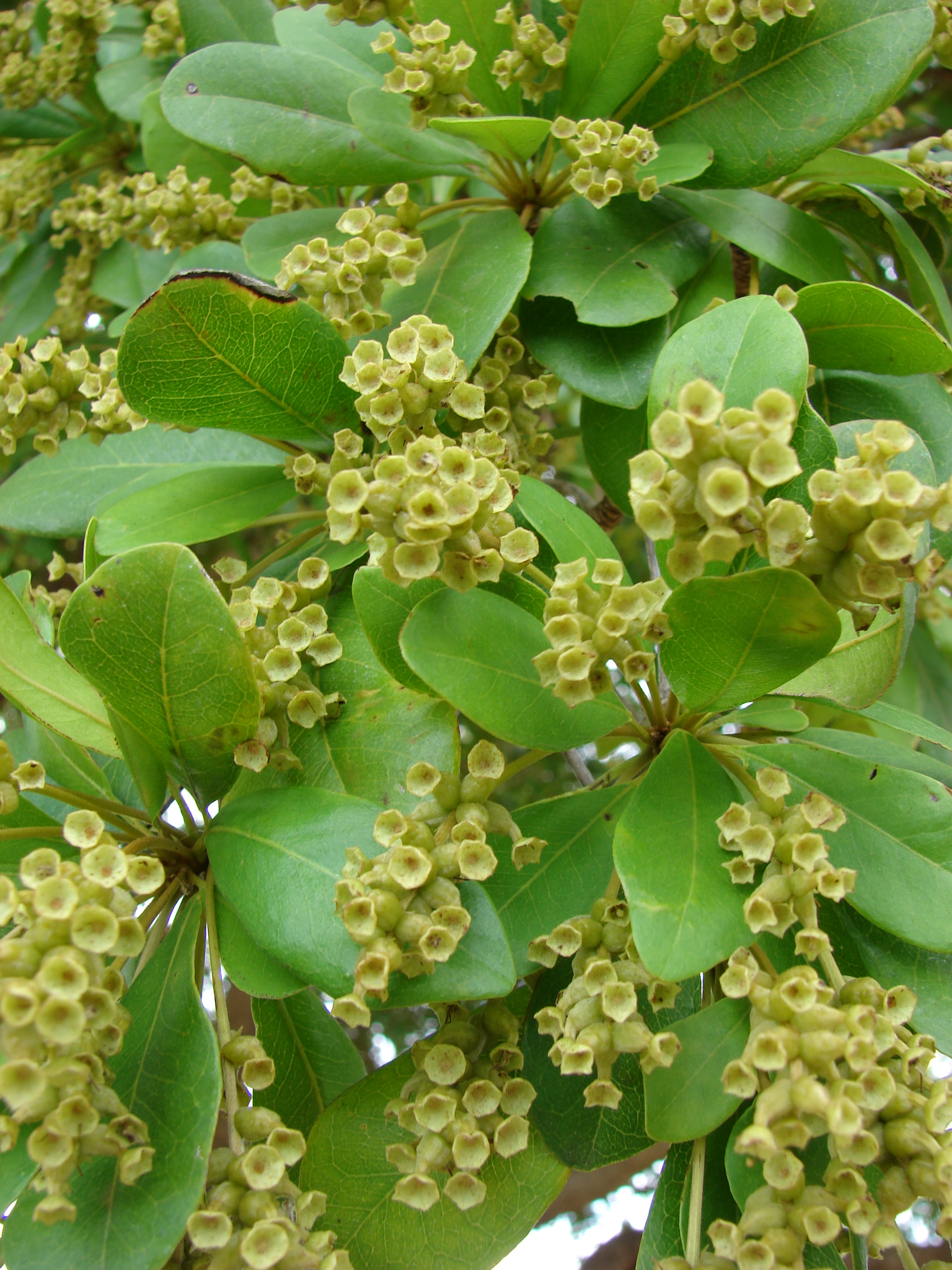 Bucida buceras (flowers). Location: Oahu, Keehi Lagoon